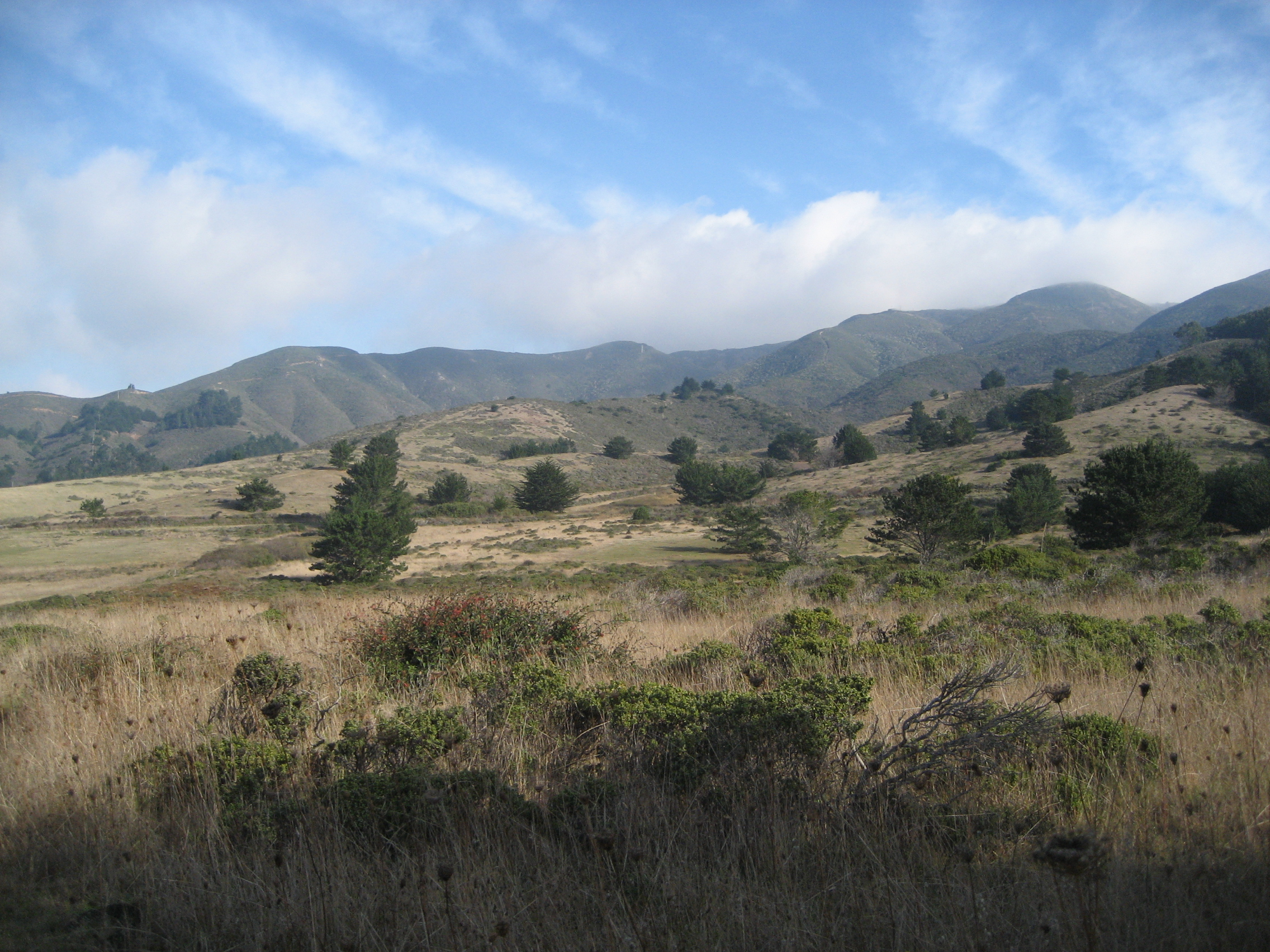 Rancho Corral de Tierra, an addition to Golden Gate National Recreation Area, California, USA